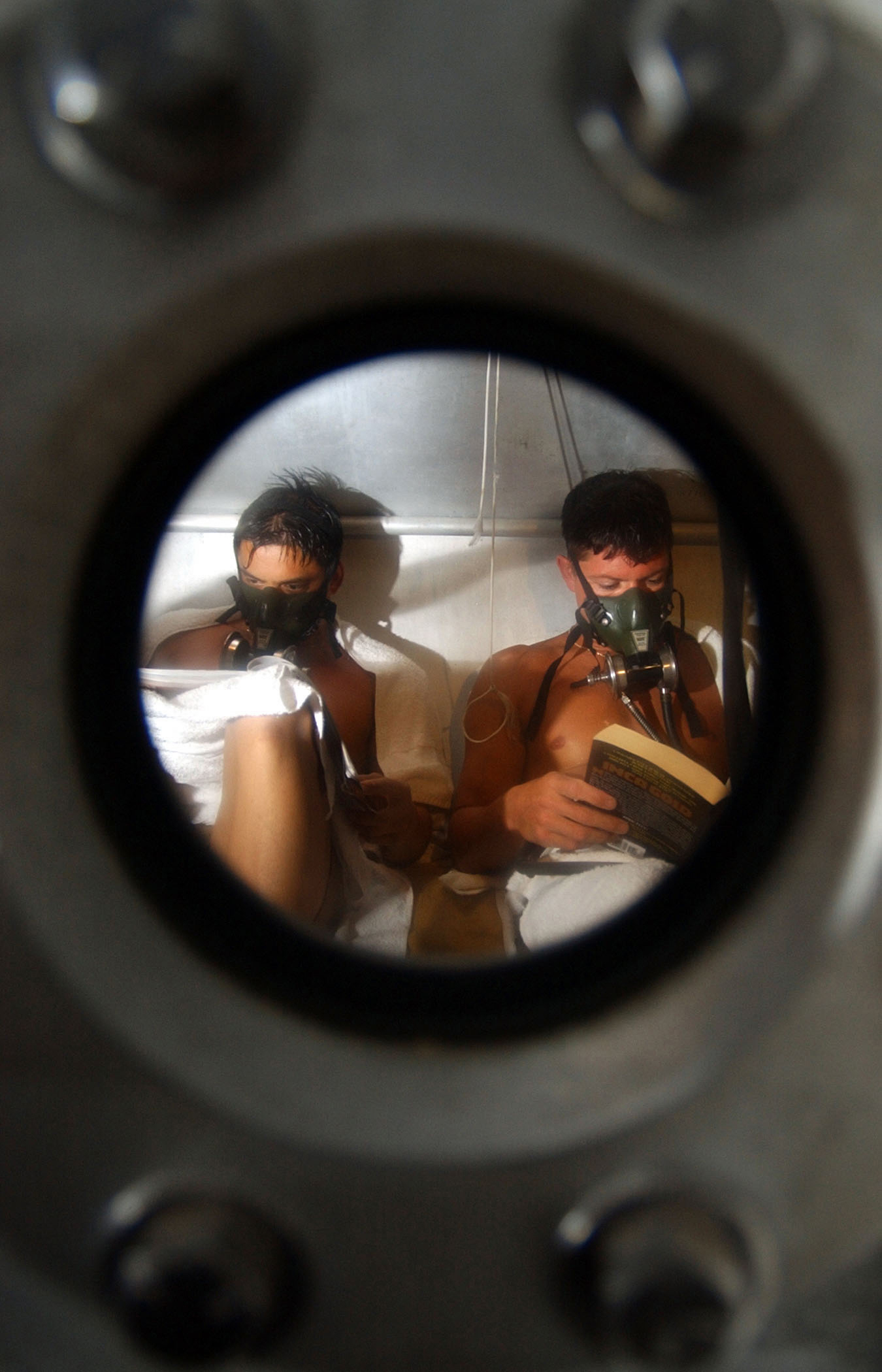 Off the coast of Cape Hatteras, N.C. (Jul. 27, 2002) -- Hospital Corpsman 1st Class David Keener (left) and Chief Hull Technician Brad Flemming breathe oxygen in a decompression chamber after returning from a 240 ft. dive operation conducted on the sunken civil war-era ironclad ship USS Monitor. The famed warship sank during a storm Dec. 31, 1862, off Cape Hatteras, N.C., while being towed to Beaufort, S.C. Four officers and 12 men were lost with the ship. U.S. Navy photo by Photographer’s Mate 1st Class Chadwick Vann. (RELEASED)